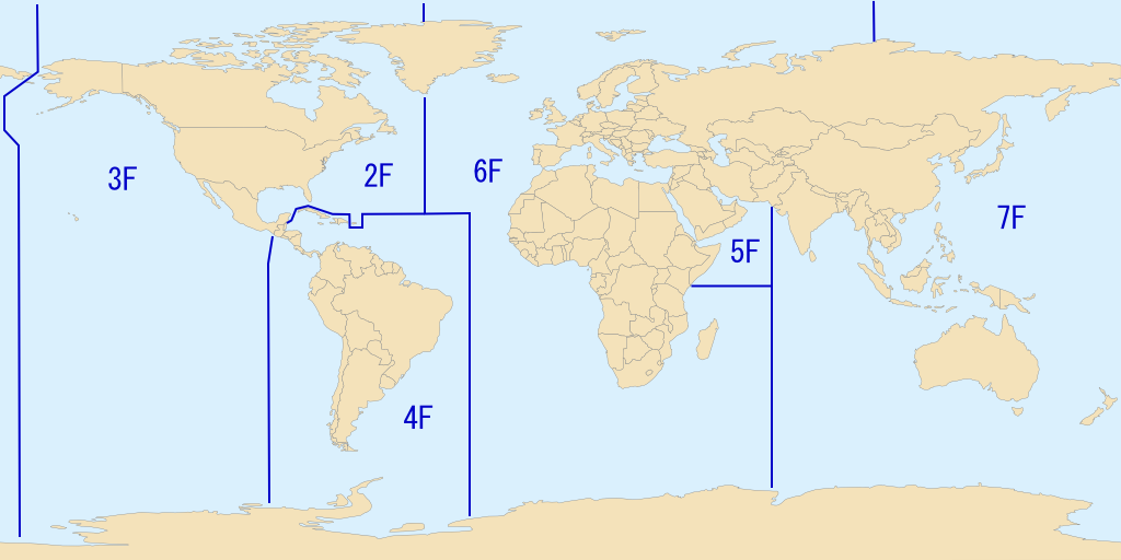 US navy fleets areas of responsibility (SVG file error)